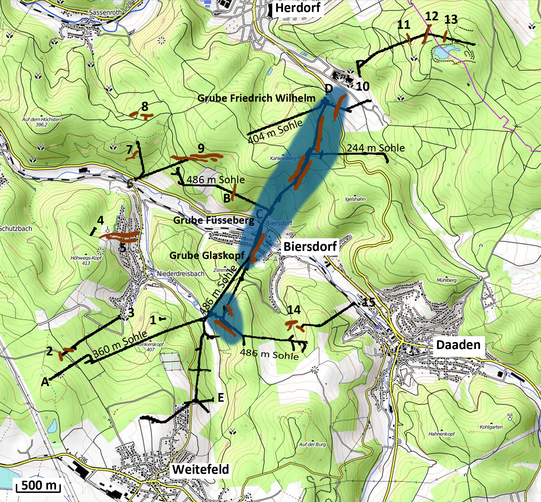 Füsseberg-Friedrich Wilhelm mine. Projection of 486 m level and major investigation galleries to ground. Blackː Adits and galleries; Brownː Major ore reservoirs; Blueː Main mining site of Füsseberg-Friedrich Wilhelm. A...Eː Parts of Füsseberg-Friedrich Wilhelm. 1...15ː Mines and ore reservoirs in the neighbourhood.